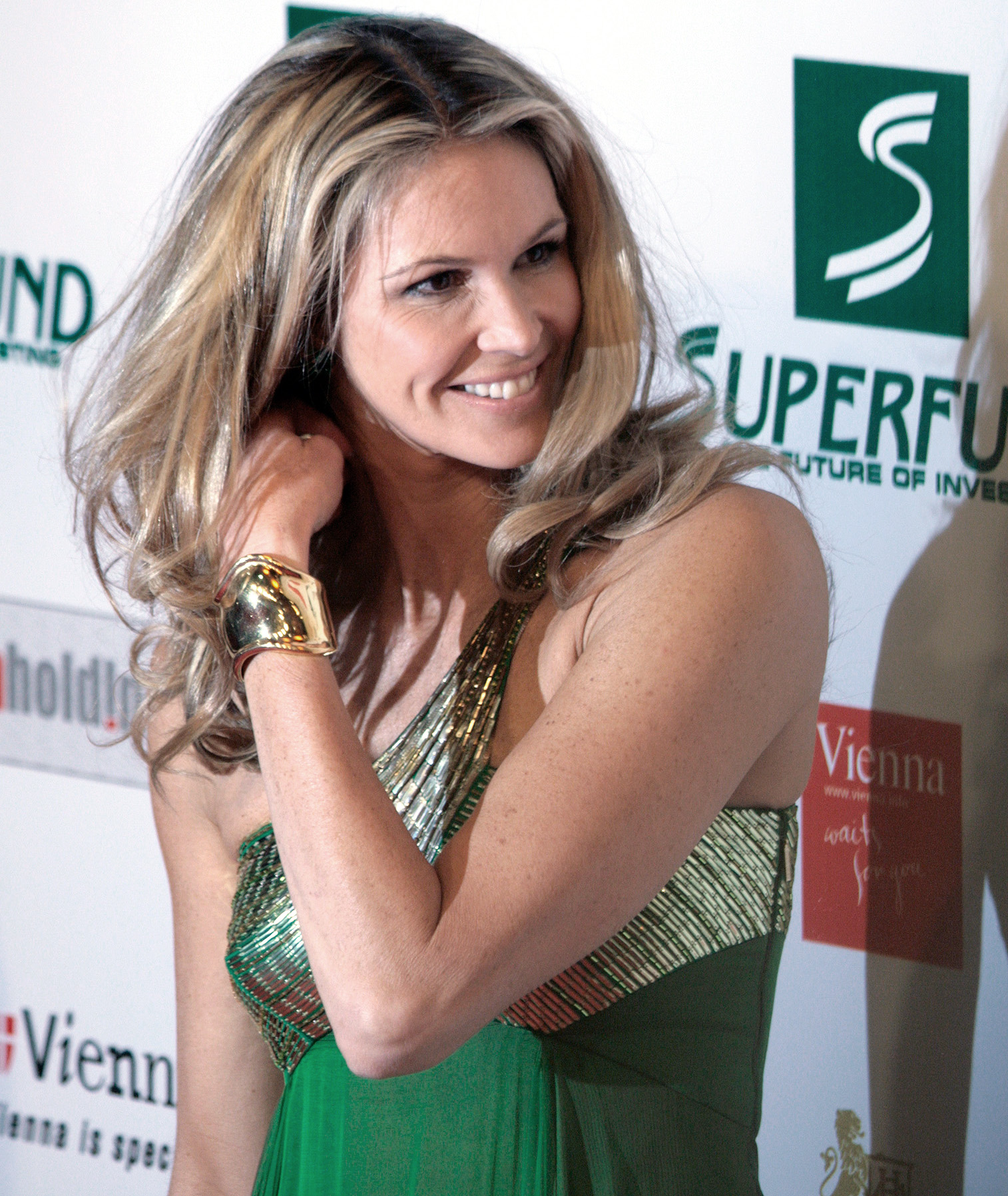 Elle Macpherson at the Women's World Award 2009 (Wiener Stadthalle, Vienna, Austria).